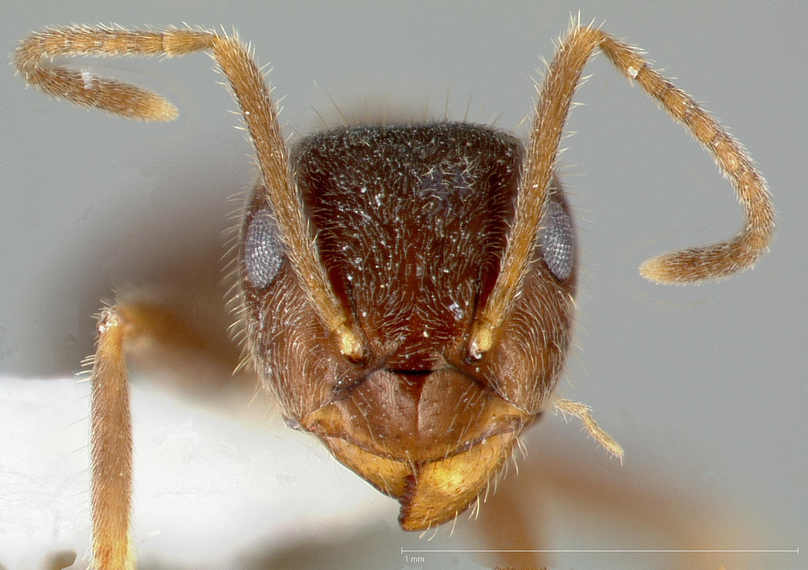 Head view of ant Lasius niger specimen casent0005404.